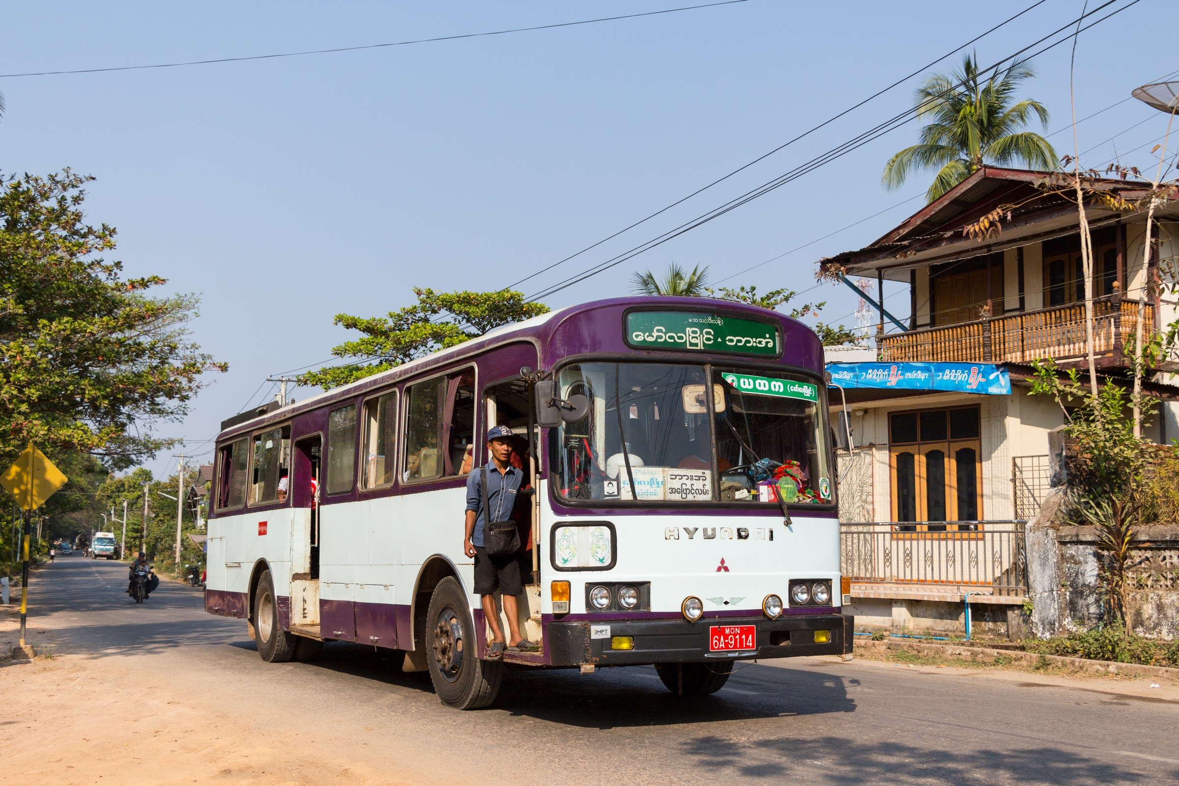 Hyundai RB520 in Hpa-an, Myanmar